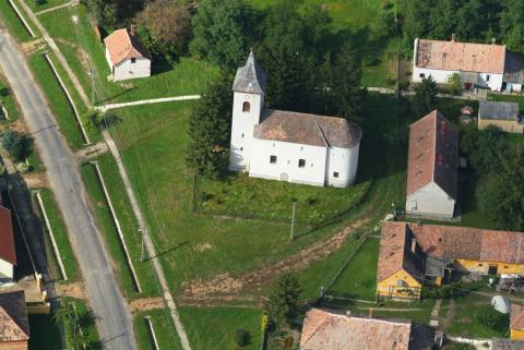 Kemenesszentmárton, Hungary, aerial photography This is a photo of a monument in Hungary, Identifier: 8977 Szent Márton római katolikus templom